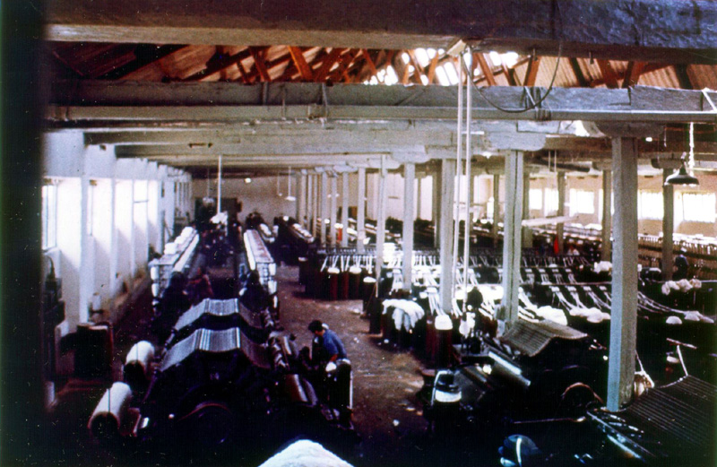 Interior view of the San Jose de Suaita cotton mill in operation (vintage image) — in San José de Suaita, Colombia. Present day San Jose de Suaita Cotton Mill Museum.